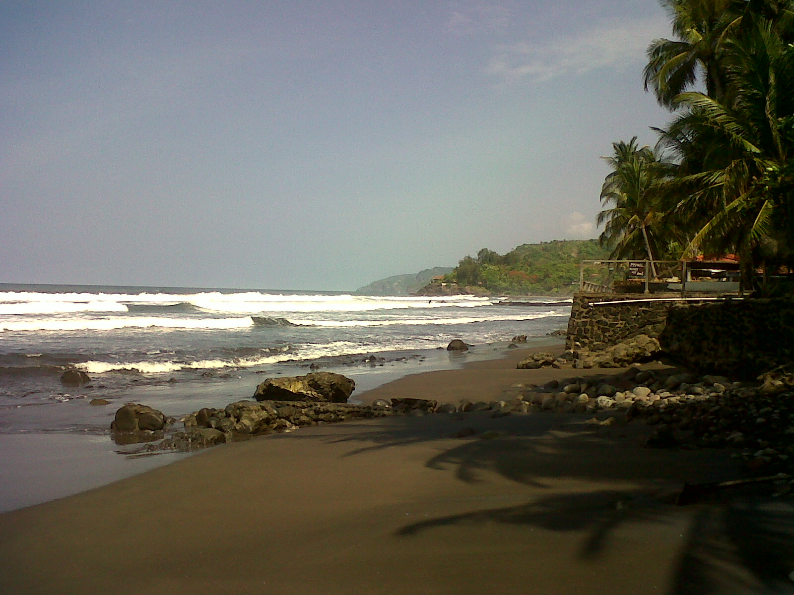 fotos de ricardo alfonso